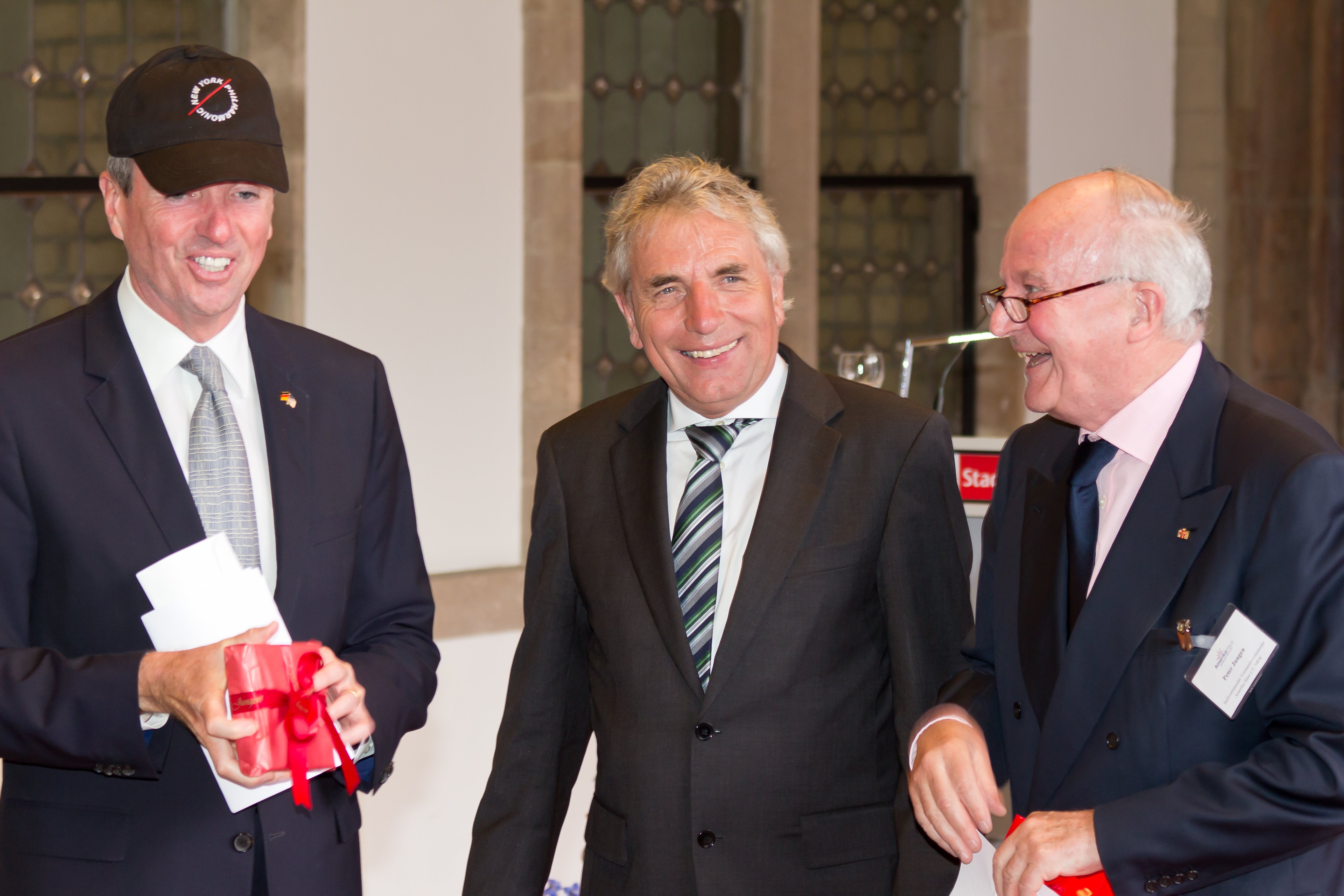 Parting visit of the American ambassador Philip D. Murphy in Cologne Photo: Peter Jungen (on the right) present a gift to ambassador Philip D. Murphy (on the left). In the middle: Mayor Jürgen Roters